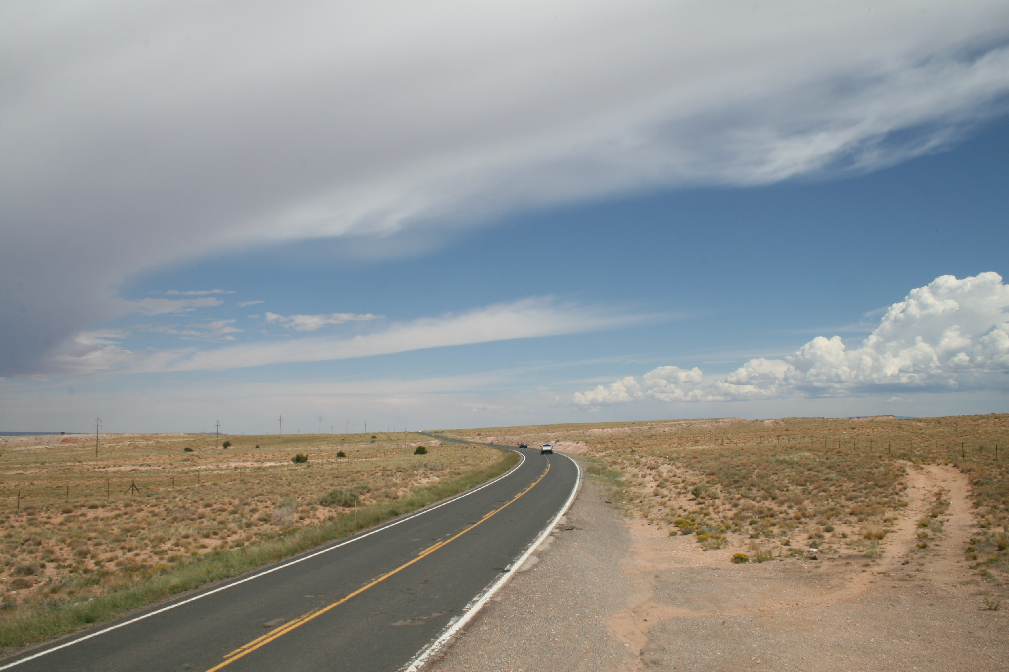 U.S. Route 191, Arizona U.S. Route 191 in Beautiful Valley, Arizona, looking north.